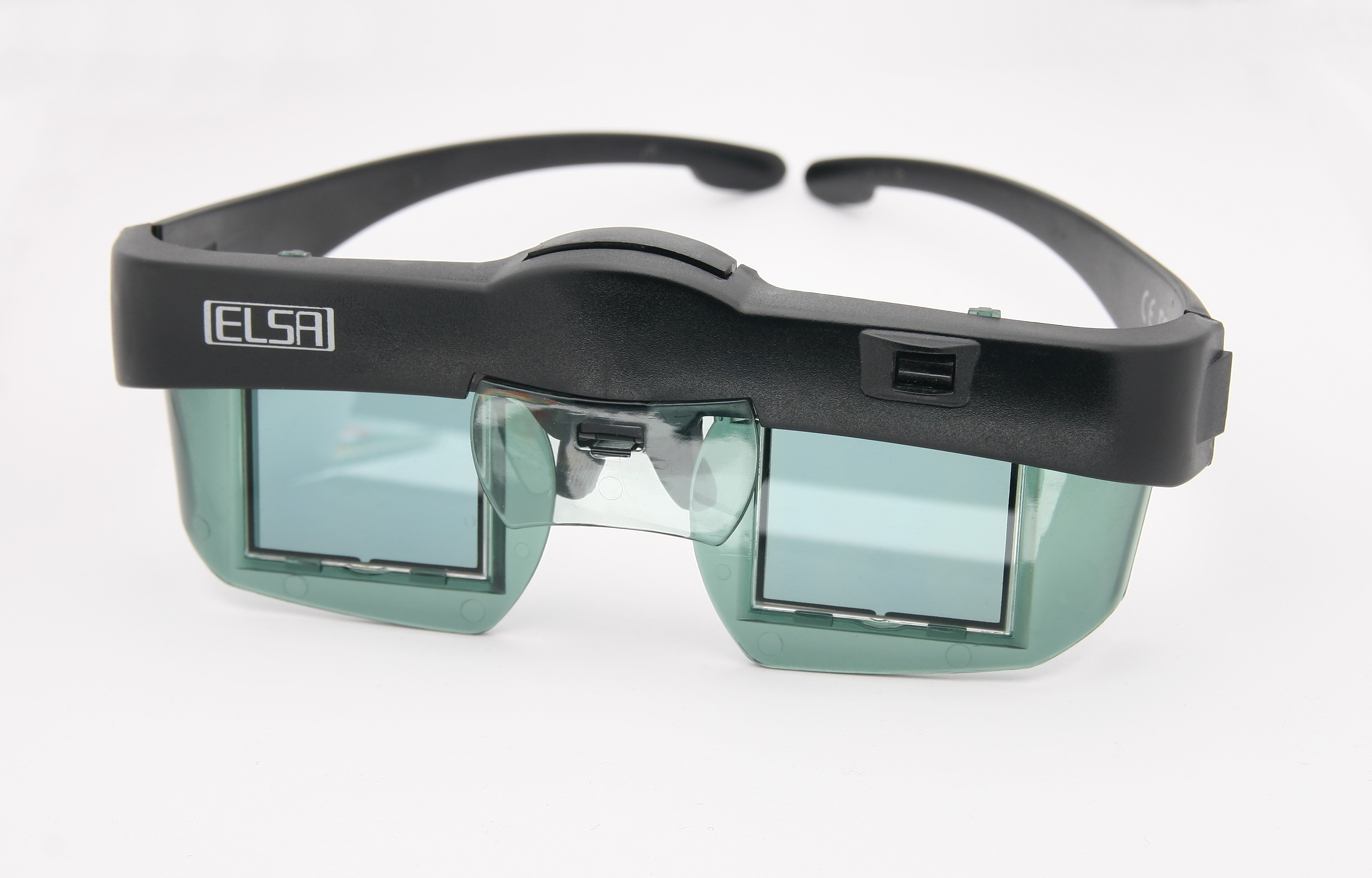 ELSA Revelator IR controlled LCD shutter glasses for NVidia based graphic cards.